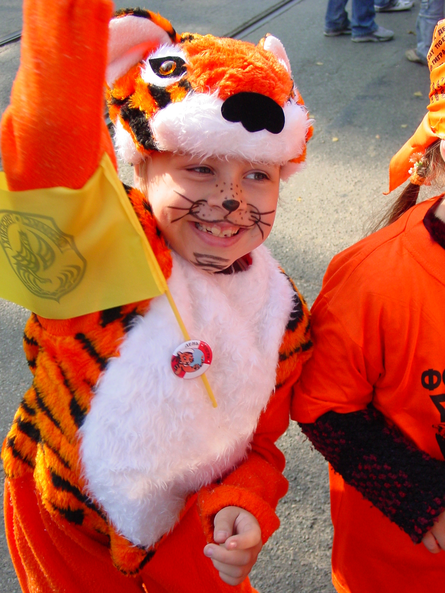 Tiger conservation festival in Vladivostok. Credit: Phoenix Fund